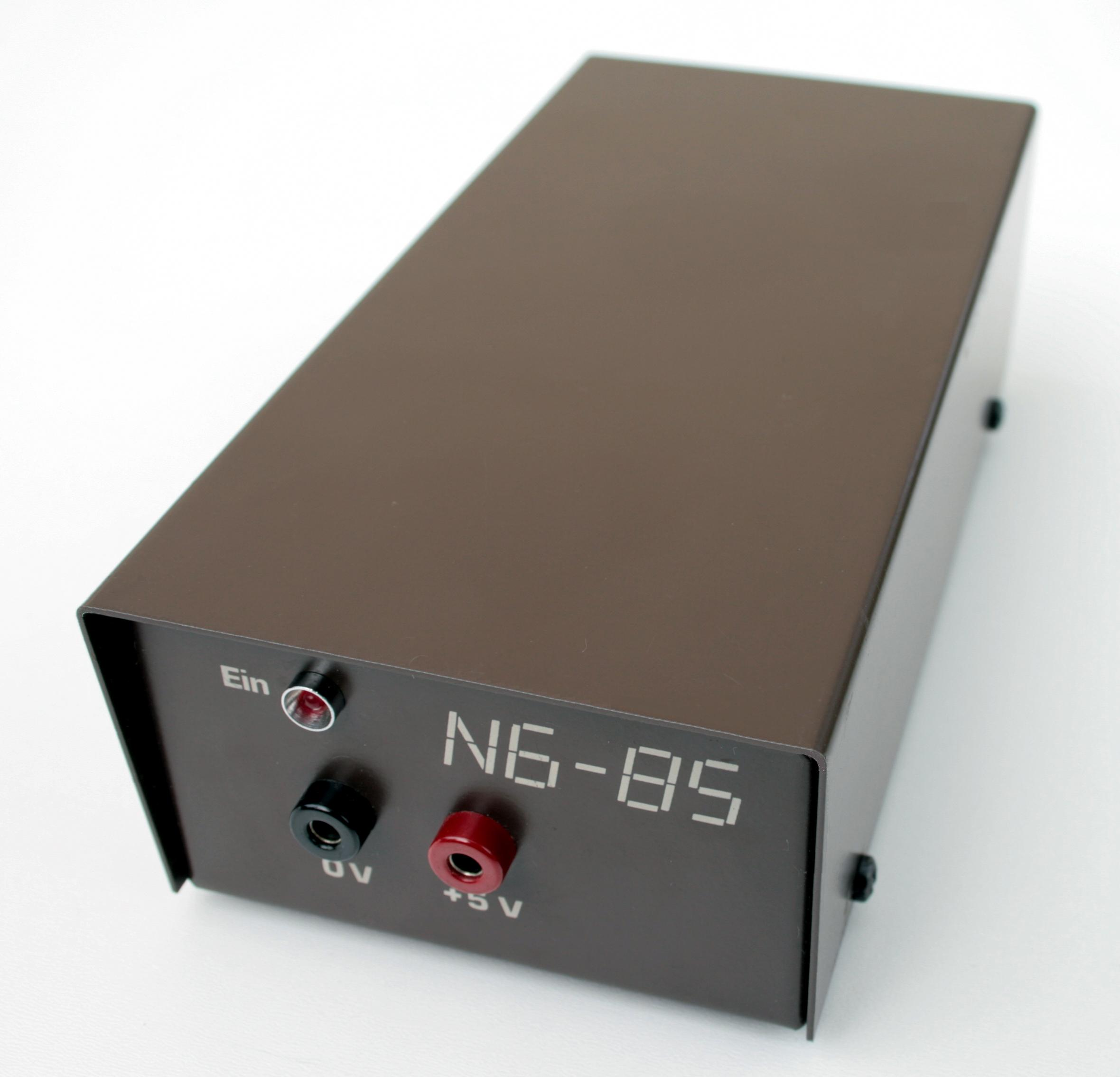 NG-85 power supply for Profi-5 microcomputer family